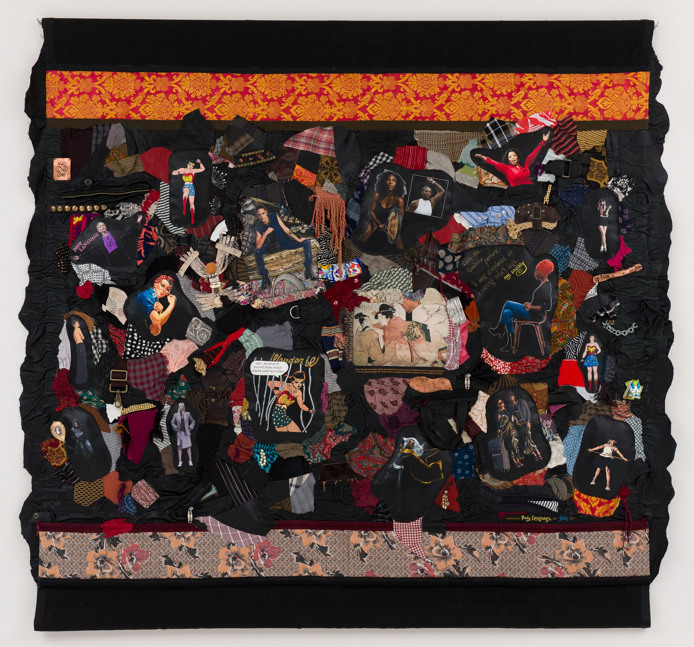 Femininities: Body Language 897; 2017; 77x69x2”; fabric, archival pigment on canvas, leather, metal